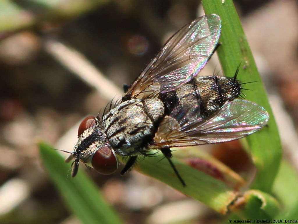 Metopia argyrocephala